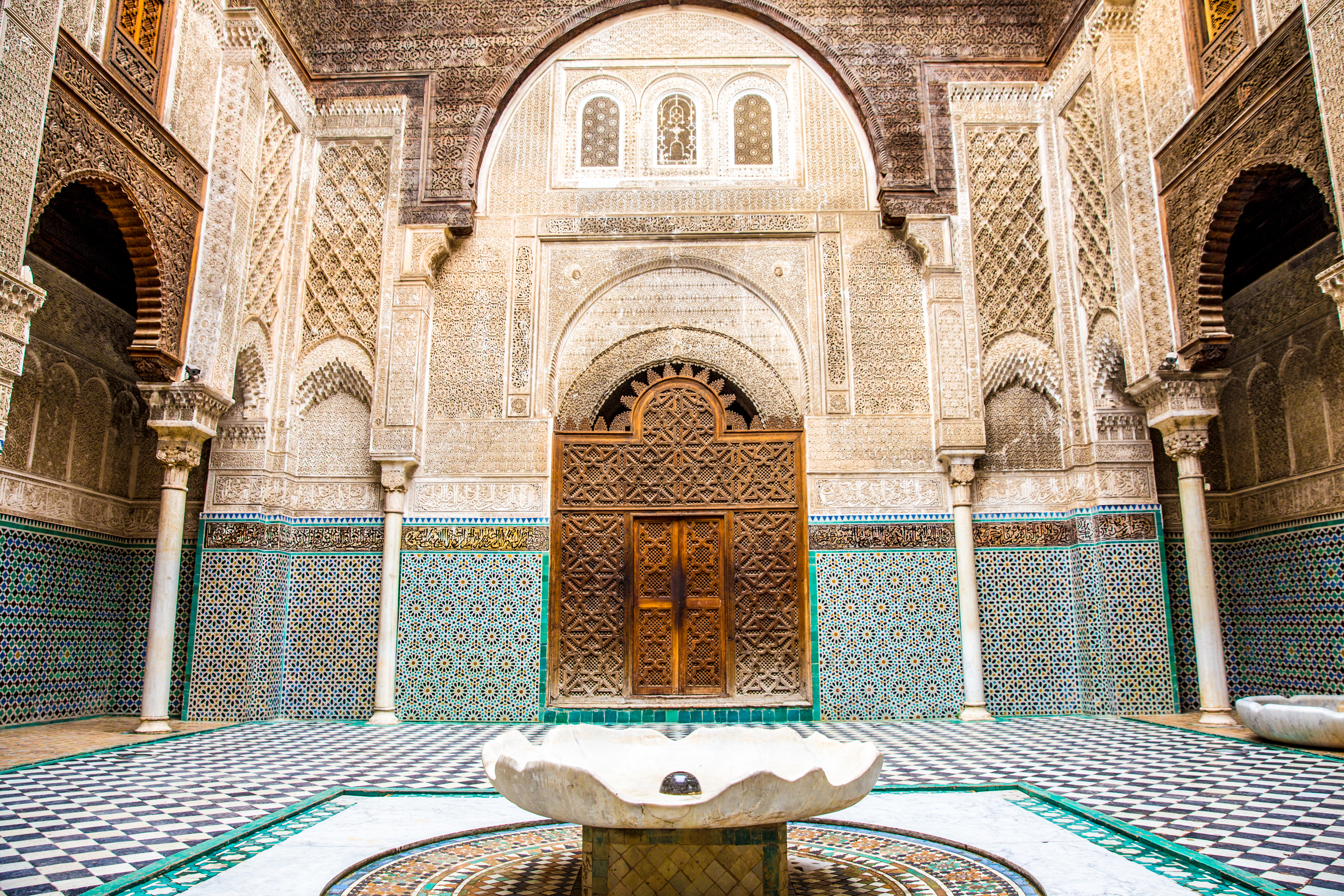 Inside the Al-Attarine Madrasa, Fez, Morocco